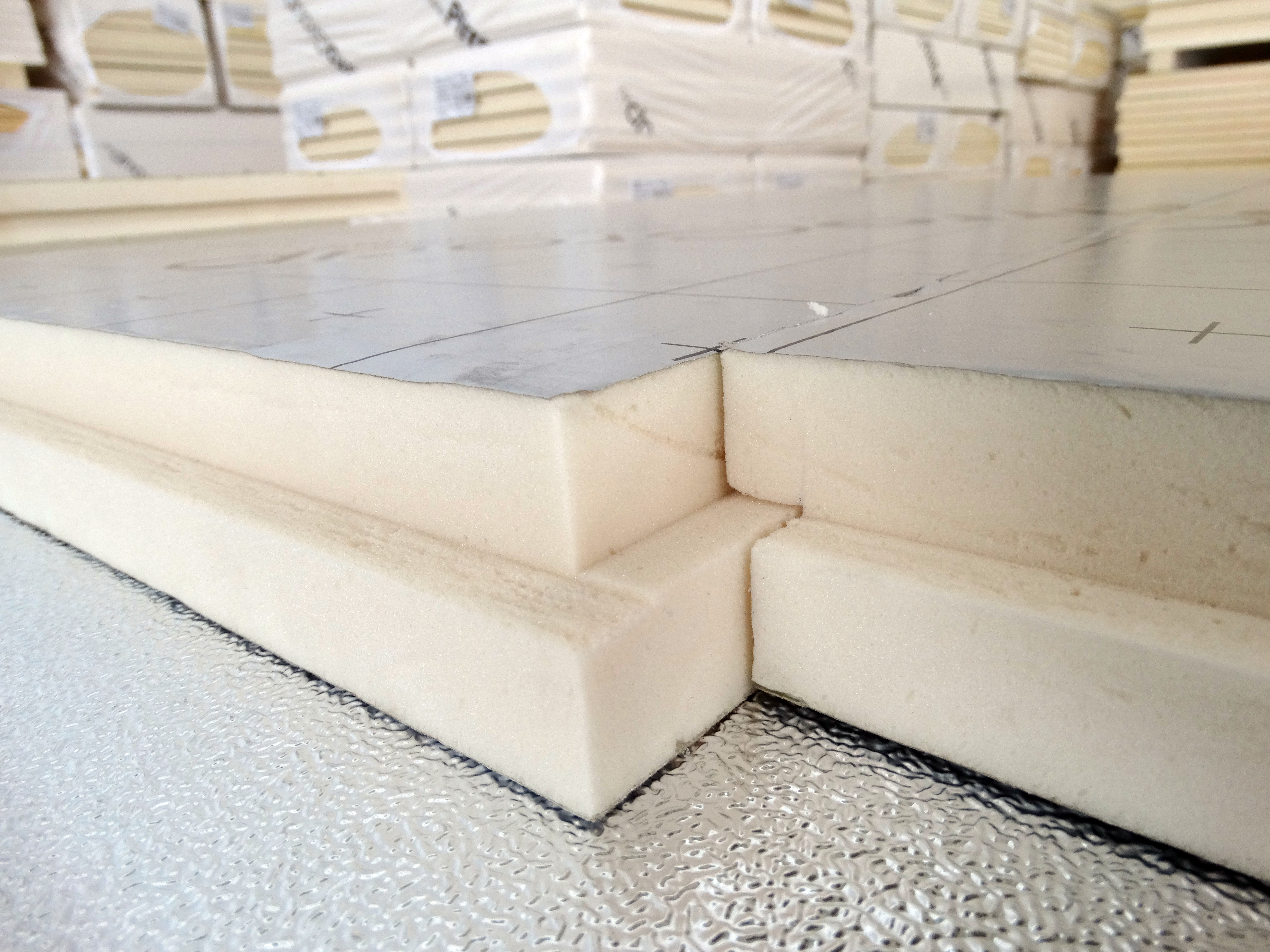 PIR insulation panels